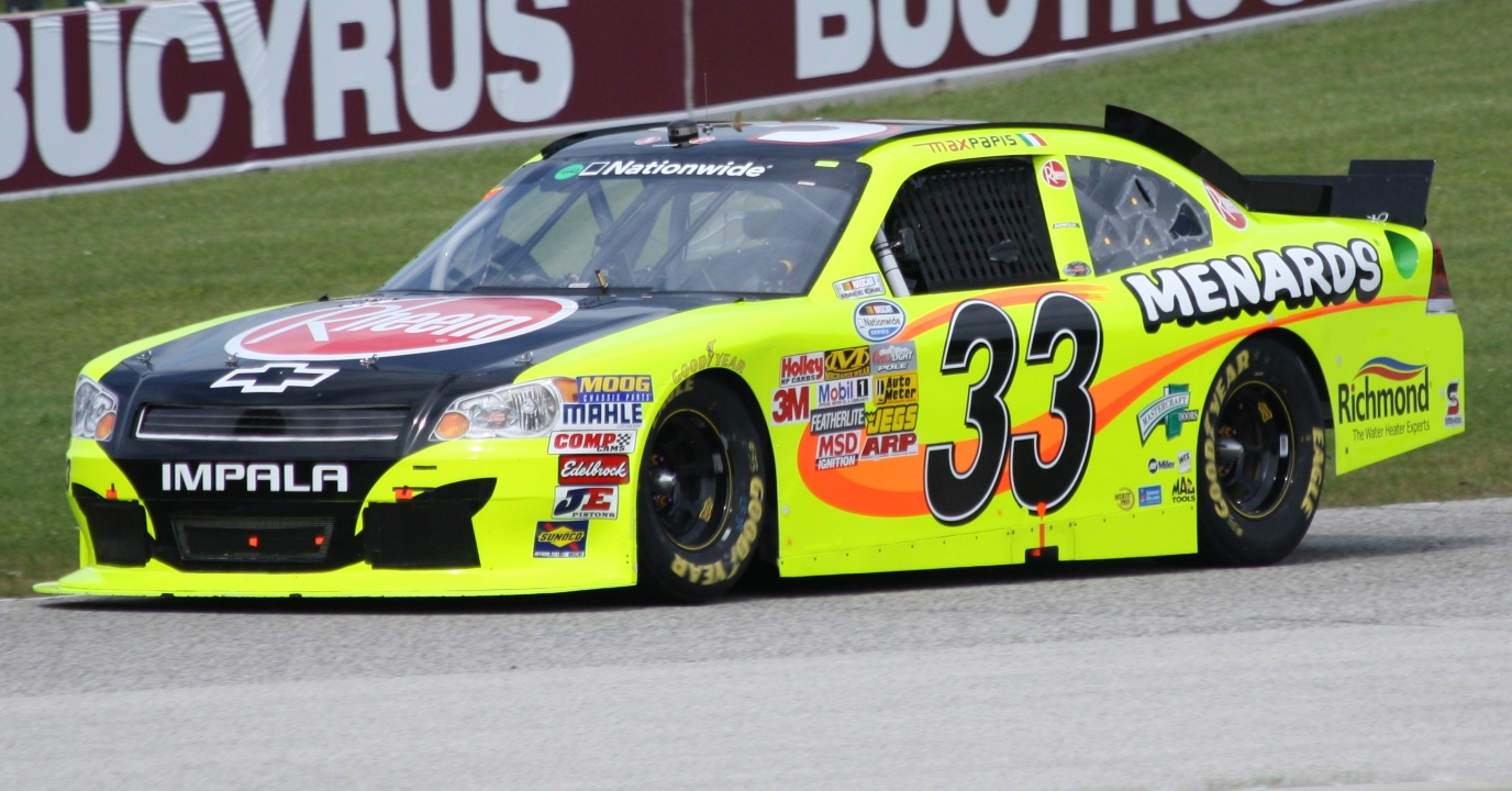 NASCAR driver Max Papis racing his stock car at Road America at the 2011 Bucyros 200 Nationwide Series race.